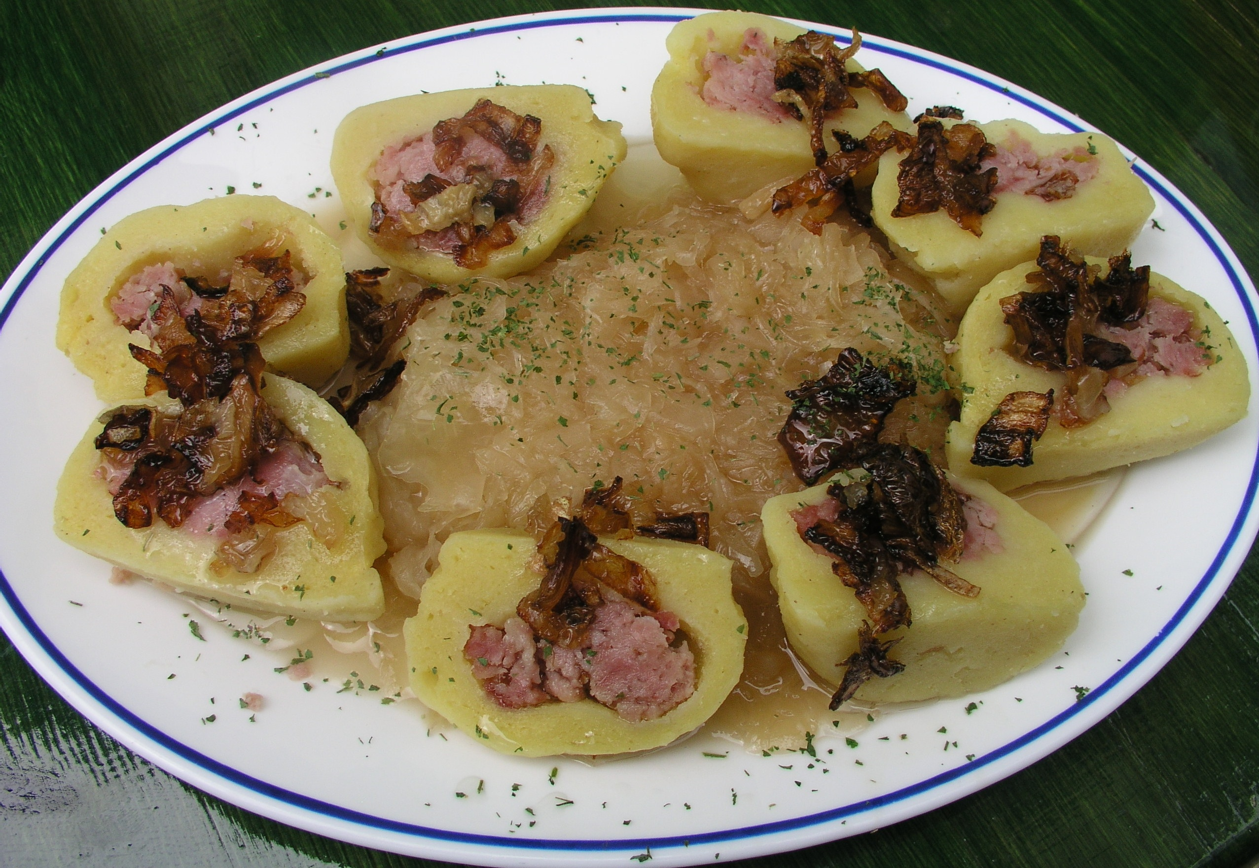 Czech potato dumplings stuffed with smoked bacon, with sauerkraut and roasted onions